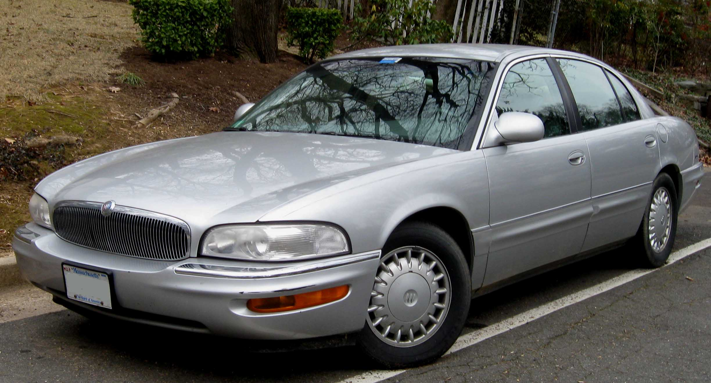 1997-2002 Buick Park Avenue photographed in Alexandria, Virginia, USA.